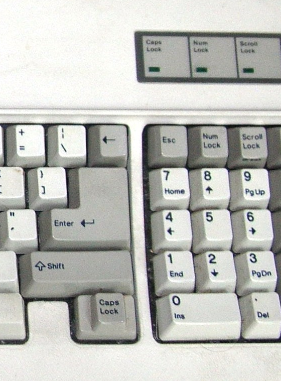 IBM AT Keyboard